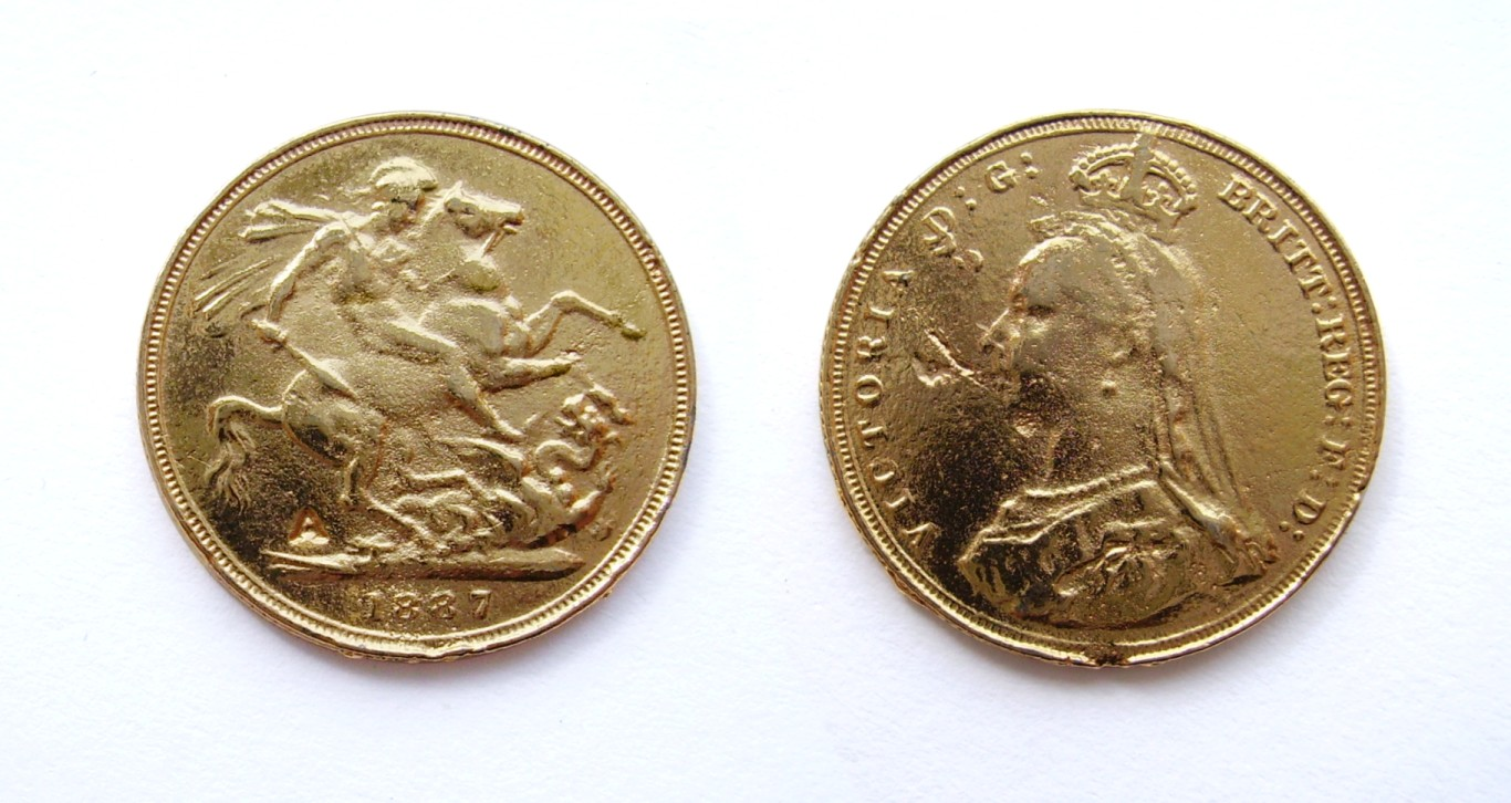 Queen Victoria English Sovereign from 1887. Diameter: 7/8 inch (ish). Both sides are of the same coin. The letters read "VICTORIA D G BRITT REG F D" which translates from Latin as "Victoria by the Grace of God Queen of Britain and defender of the faith".